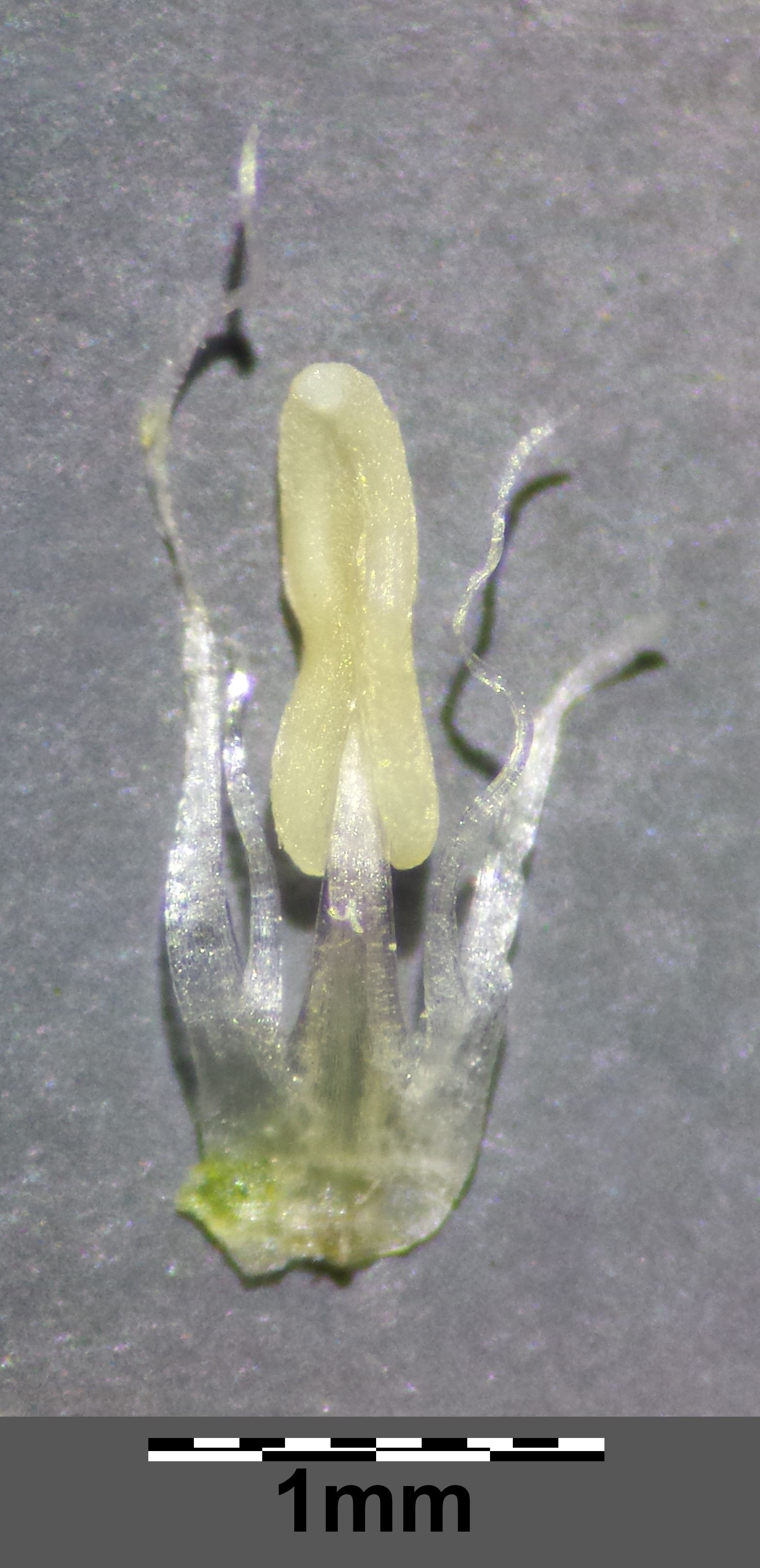 Inner stamen with thin lobes Taxonym: Allium sativum ss Fischer et al. EfÖLS 2008 ISBN 978-3-85474-187-9 Location: next to Manhartsbrunn, district Mistelbach, Lower Austria - ca. 250 m a.s.l. Habitat: former wineyard